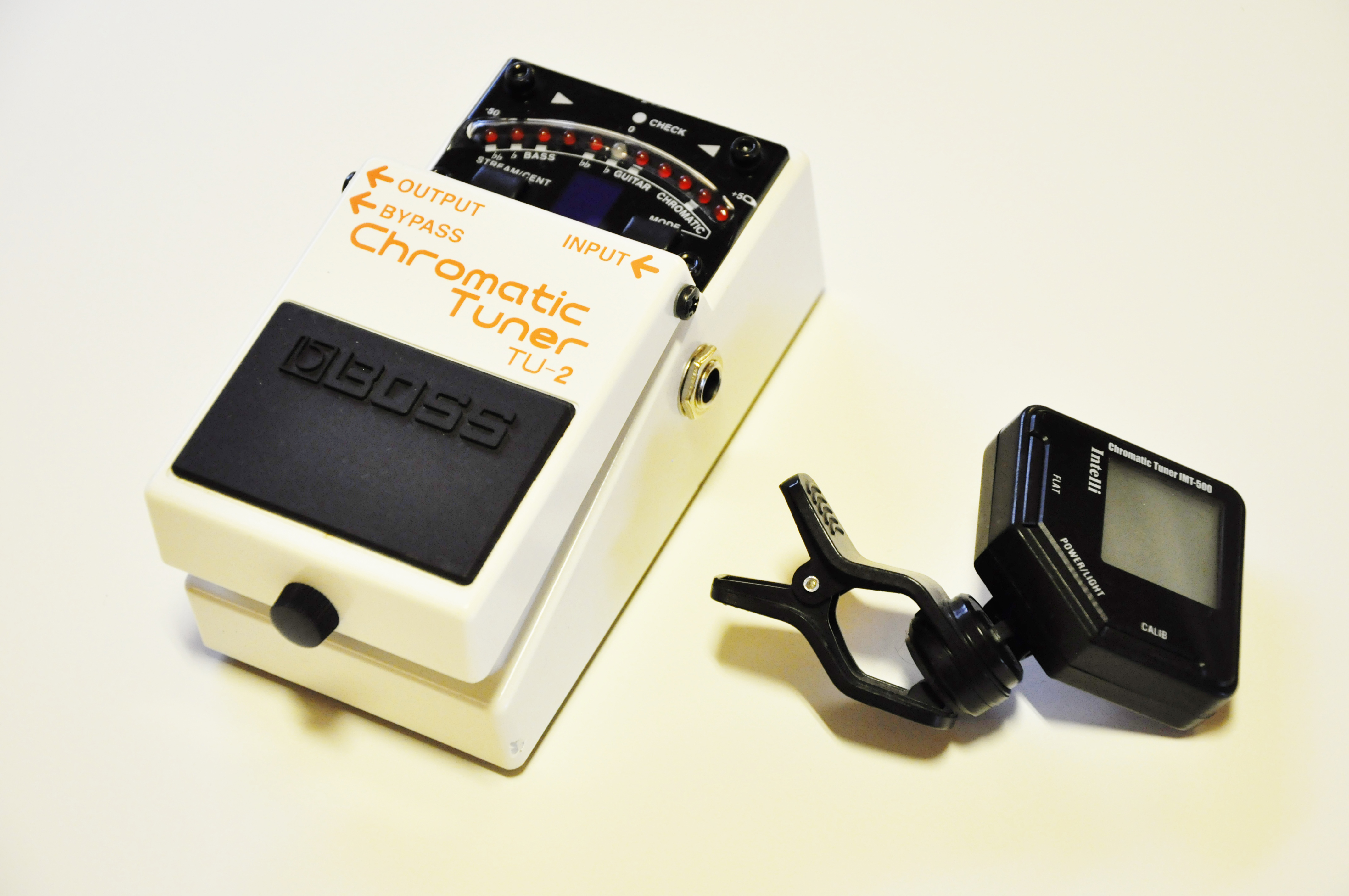 Guitar tuners, standard and clip-on.